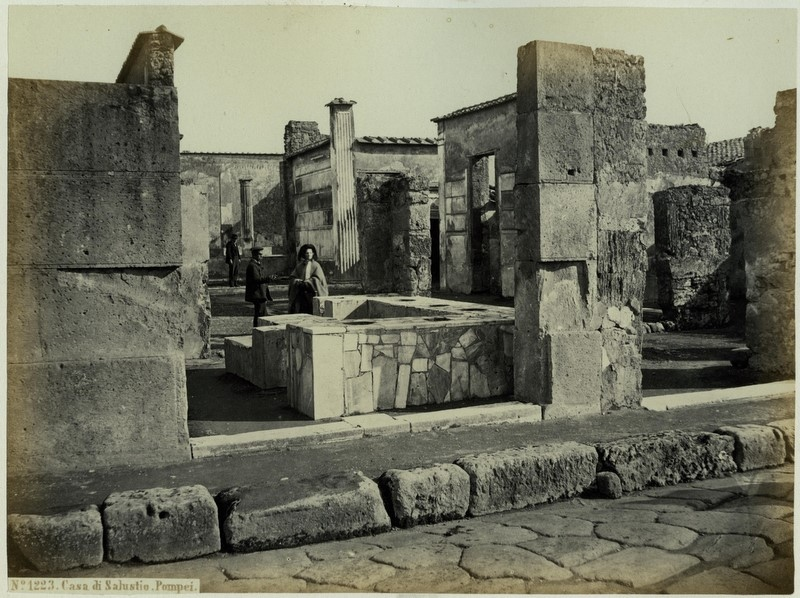 Giorgio Sommer (1834-1914), "Pompeii - House of Salluste". Catalogue # 1223.